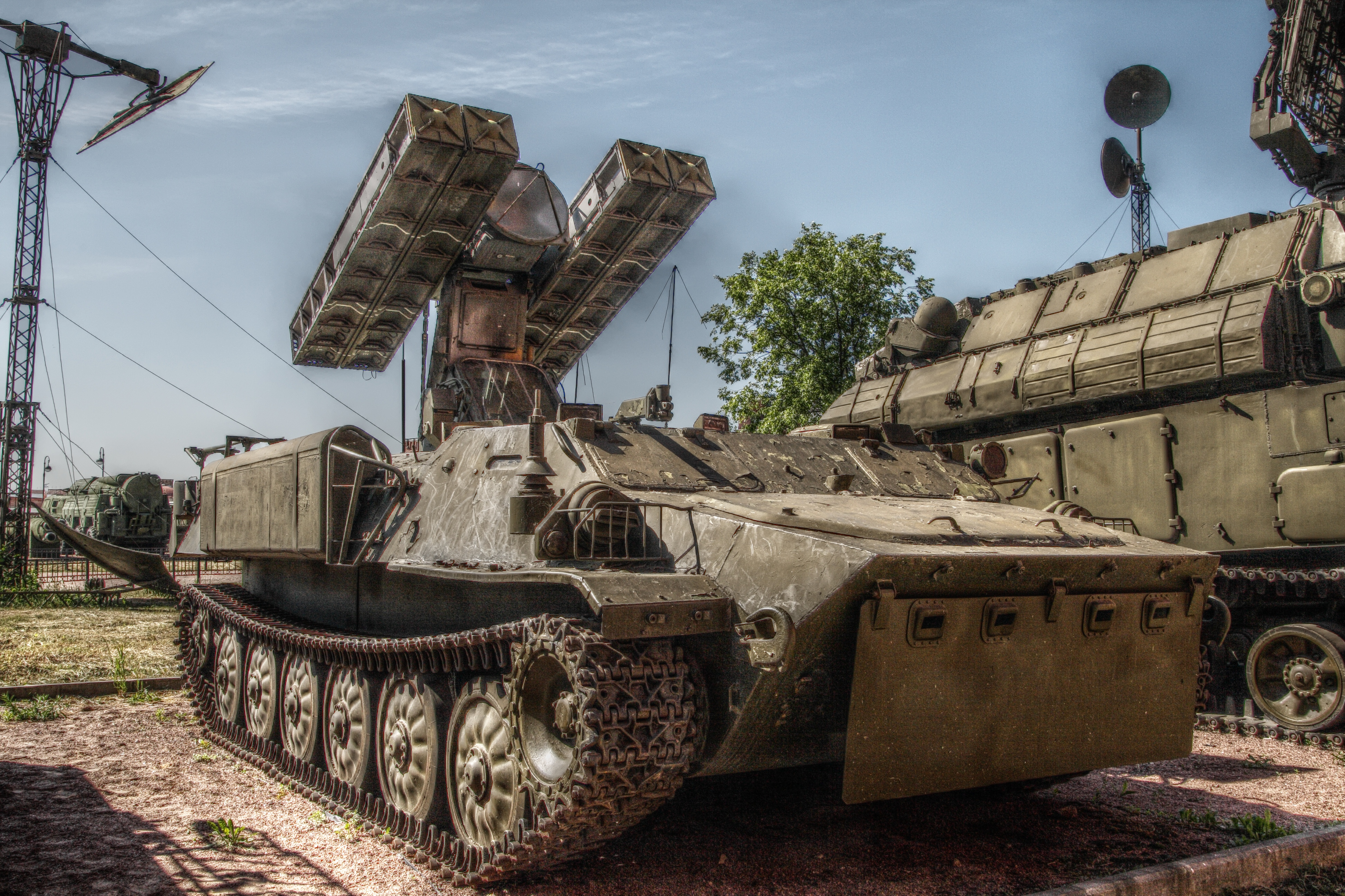 A 9k35 Strela-10, or Sa-13 Gopher under Nato designation. An Infra-red anti-aircraft missile launcher in the St Petersburg Artillery Museum.